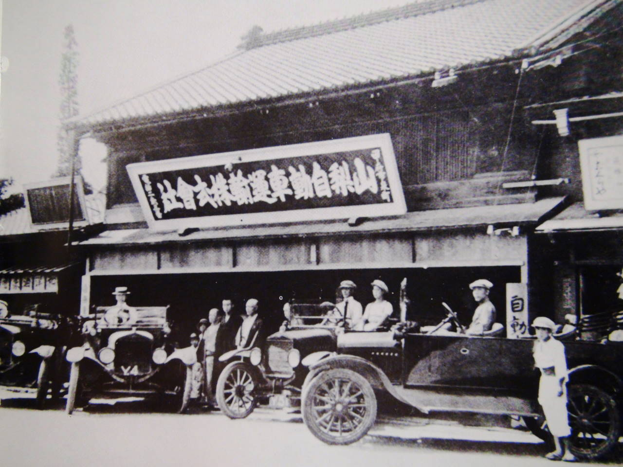 Automobile Transport Co., Yamanashi circa 1917